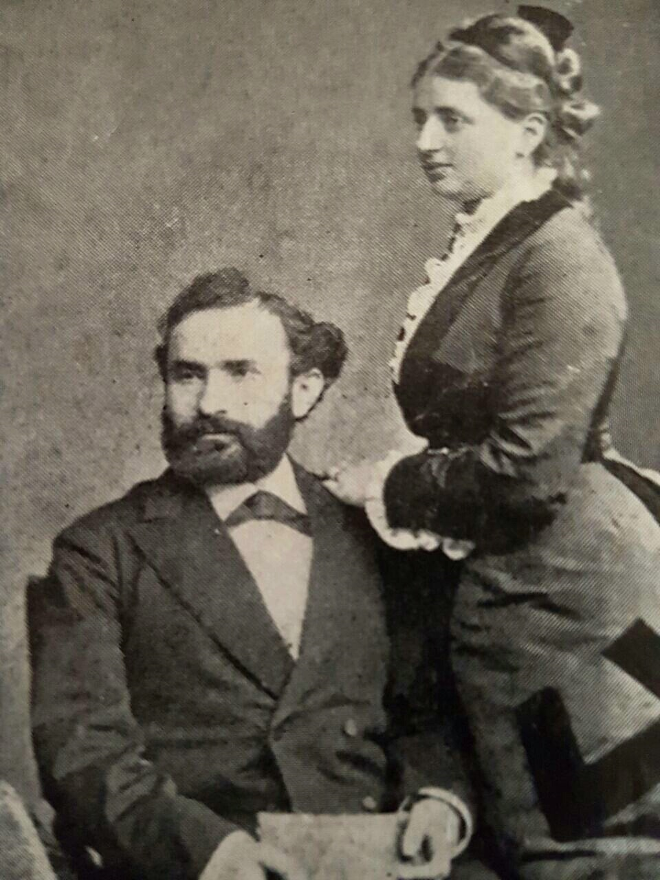 Barth Family Album - Kibbutz Sa'ad